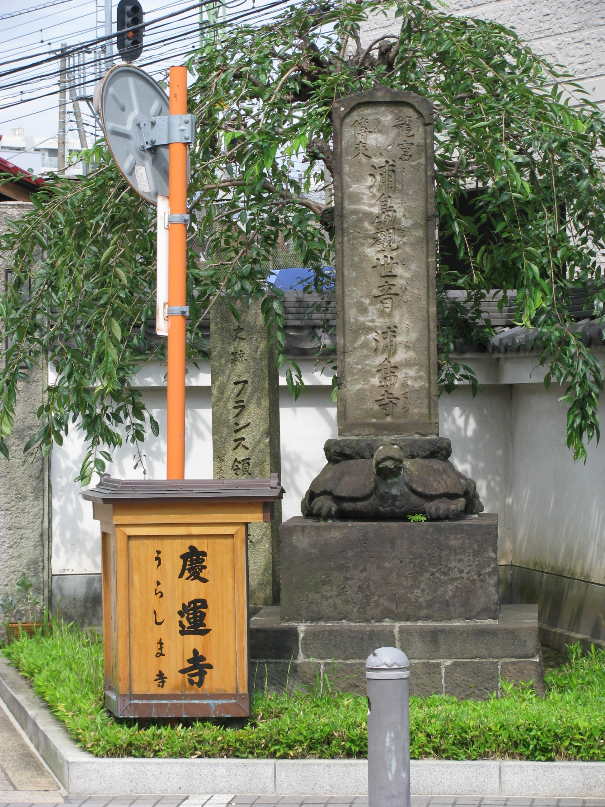 The keiun-ji of Japanese Buddhist temple. This temple also known as the Urashima temple. This place is Kanagawa-ku, Yokohama, Kanagawa, Japan.